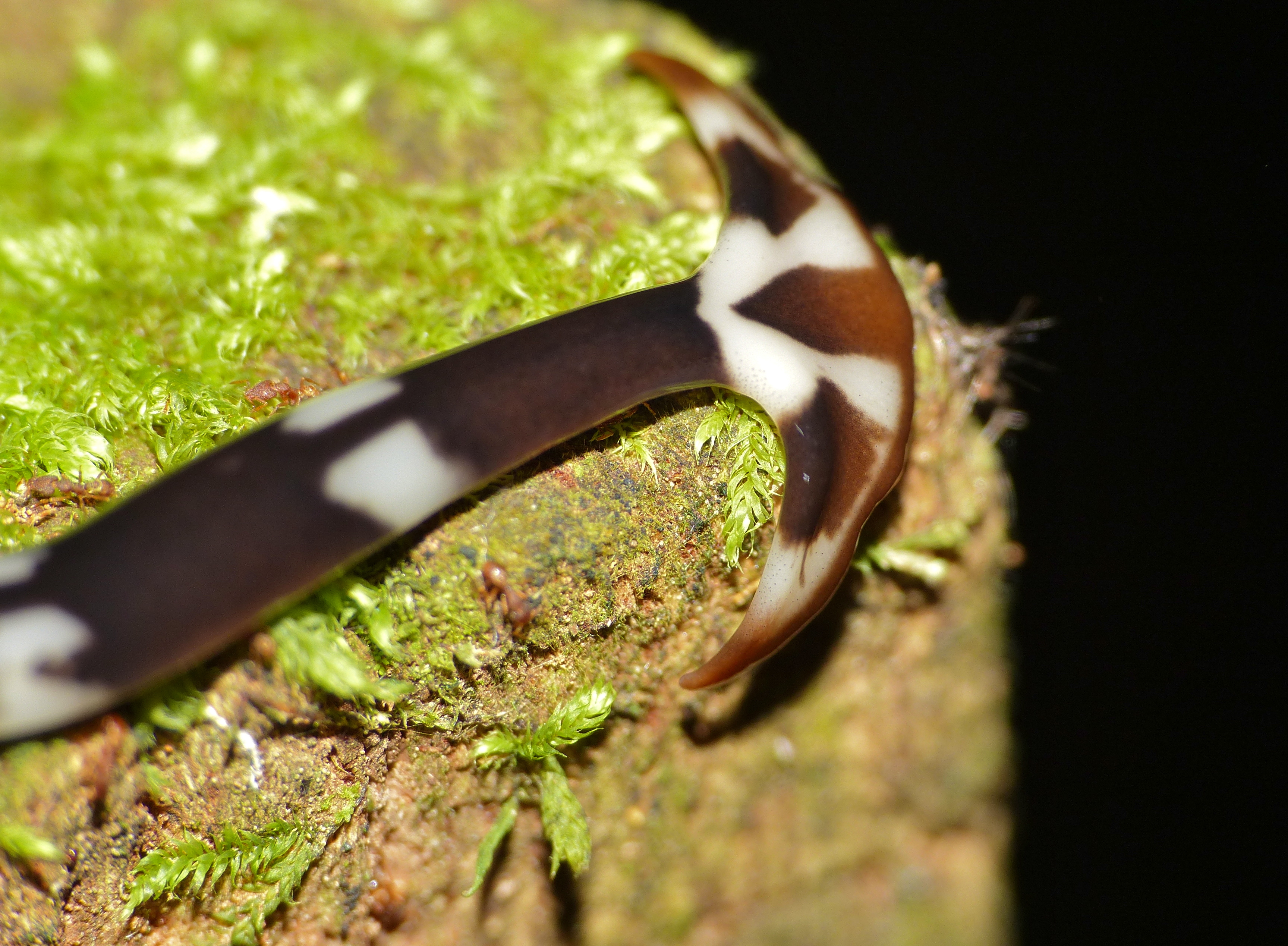 Land Planarian (Bipaliinae) close-up (the small black spots on the head are the eyes !!!) with " Mini Ants " (Carebara sp.). Deer Cave Boardwalk, Mulu NP, Sarawak, MALAYSIA.